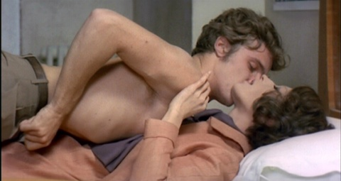 Screenshot from Teorema directed by Pier Paolo Pasolini